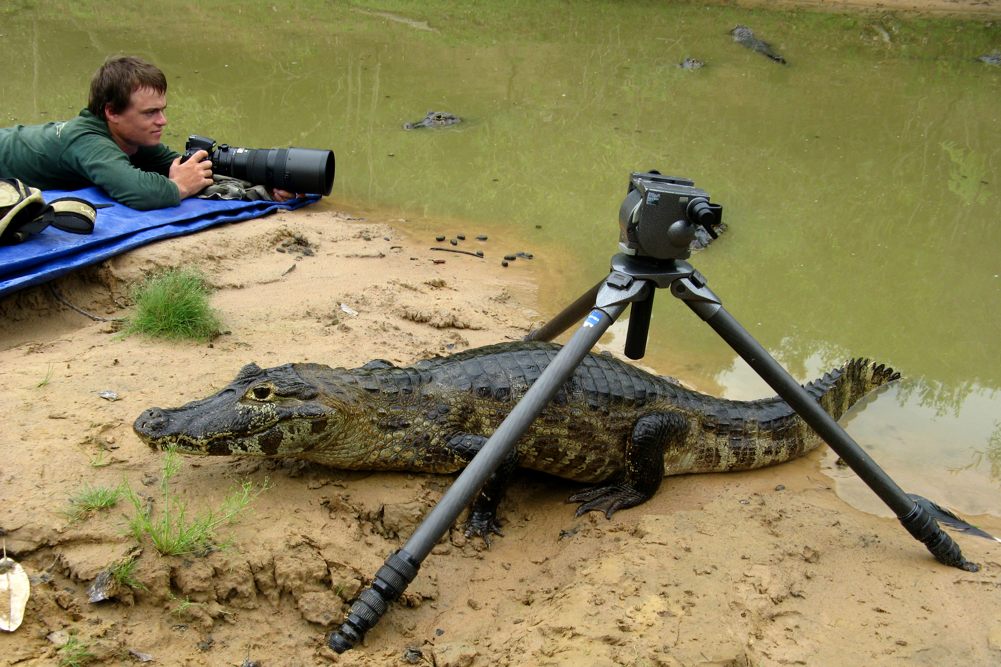 Bence Mate is photographing caiman in Brasil (Pantanal)